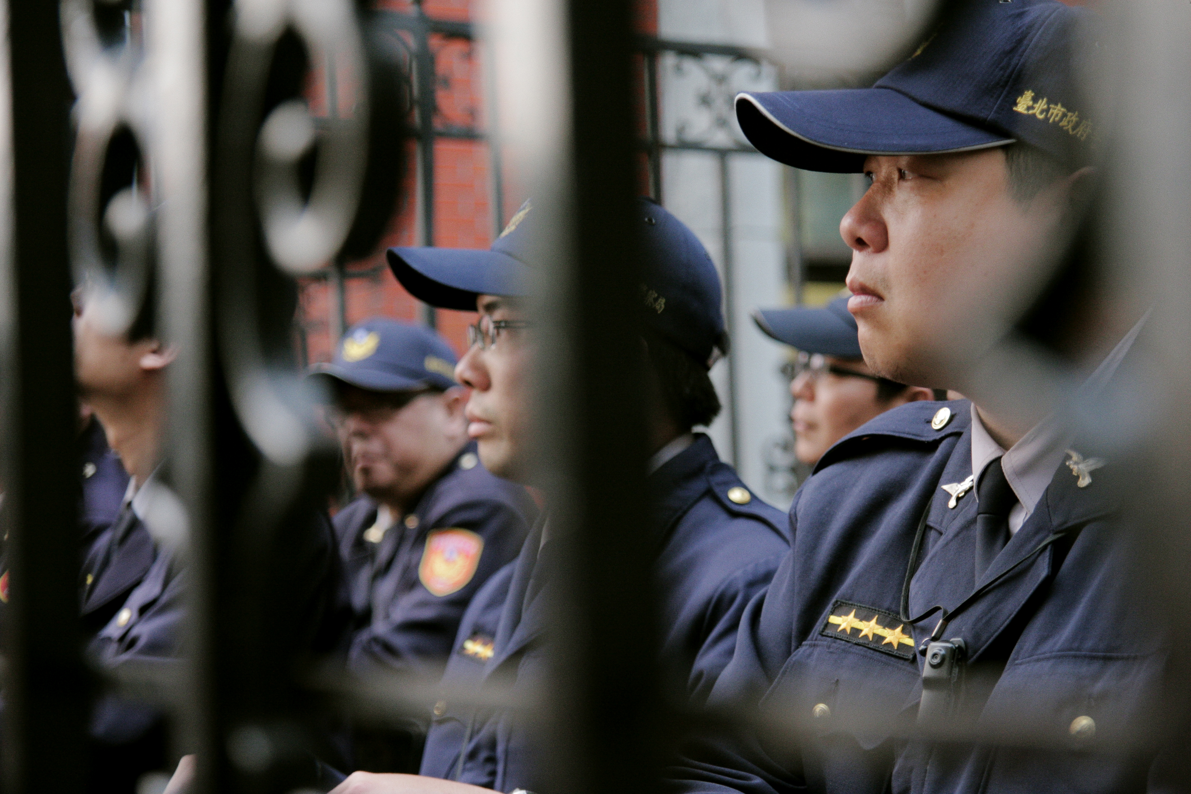 Taipei City (台北市) policemen stand guard in front of a government building on Jinan Road (濟南路) in Taipei City (台北市), near the Legislative Yuan (立法院).